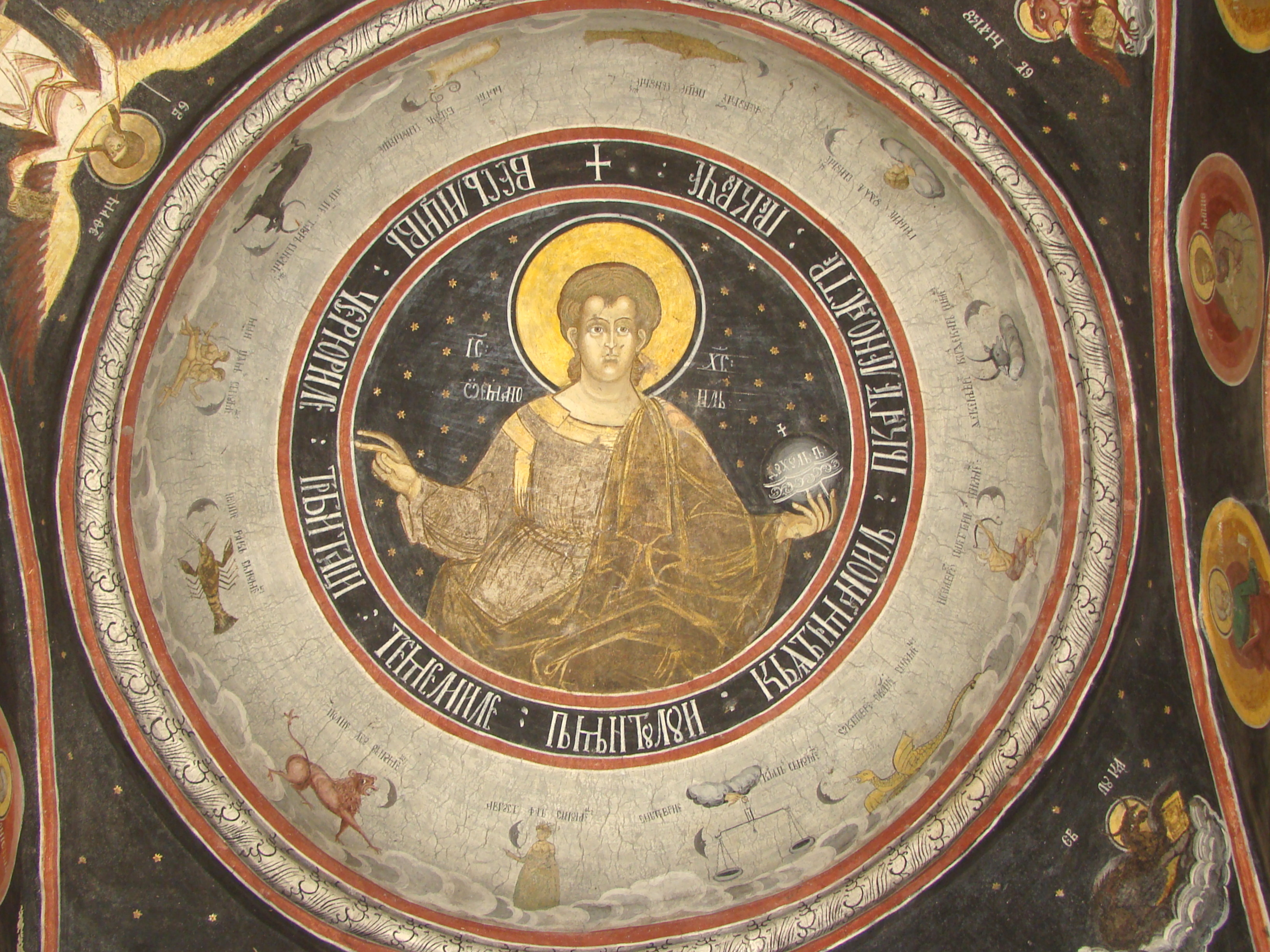 Church of Saint Nicholas and Saint Andrew in Târgu Jiu, Gorj county, Romania